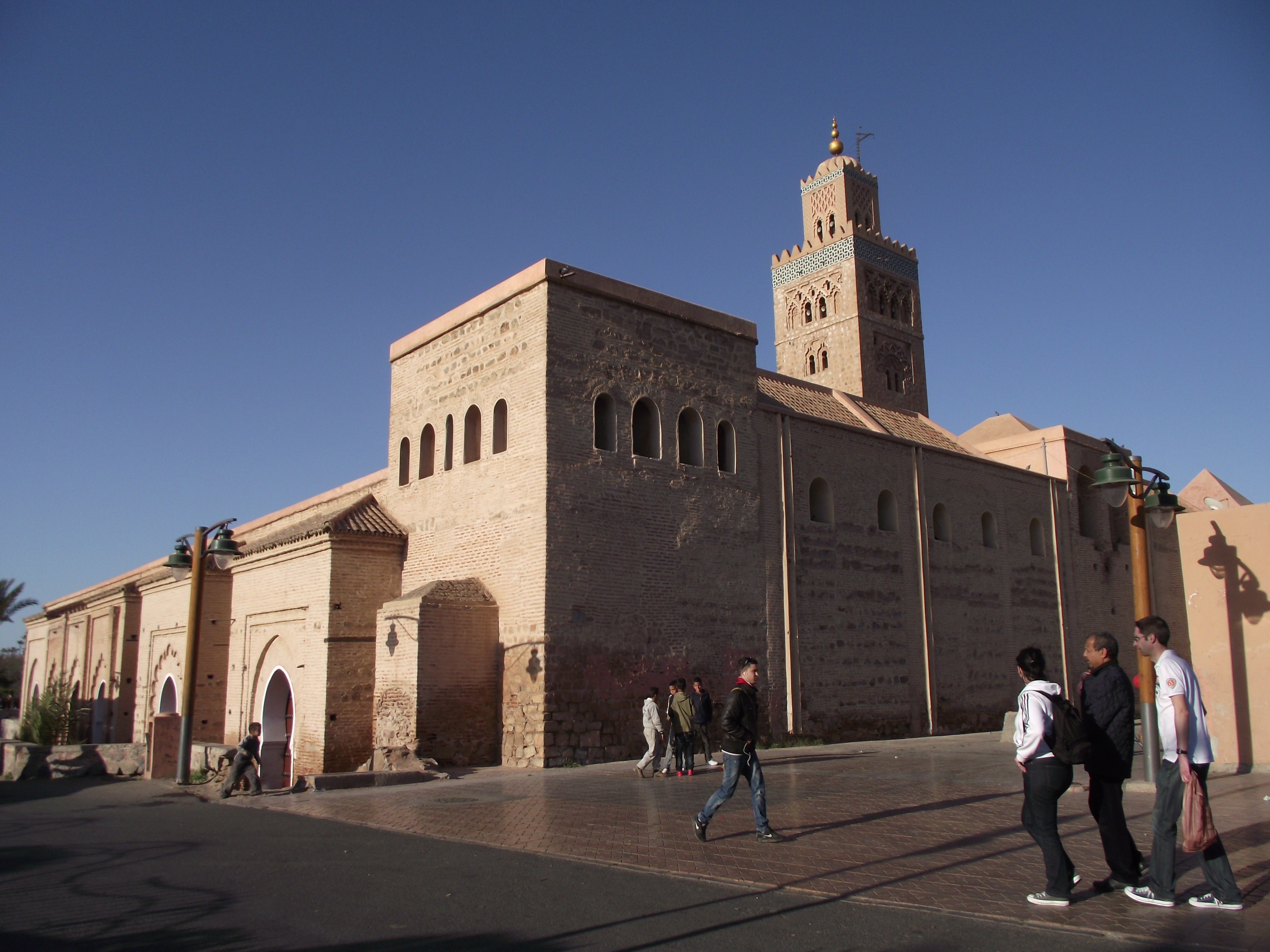 Marrakech, Koutoubia Mosque, 1158-59